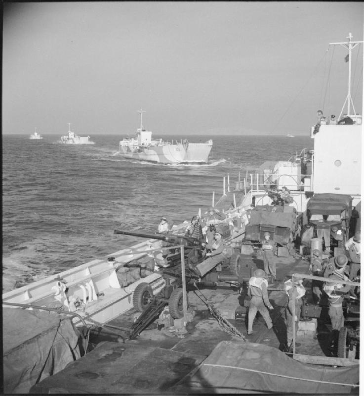 The British Army in the United Kingdom 1939-45 Bofors guns and vehicles of 54th Light Anti-Aircraft Regiment, 9th Armoured Division, on board a flotilla of landing craft during Exercise 'Harlequin', 11 September 1943.